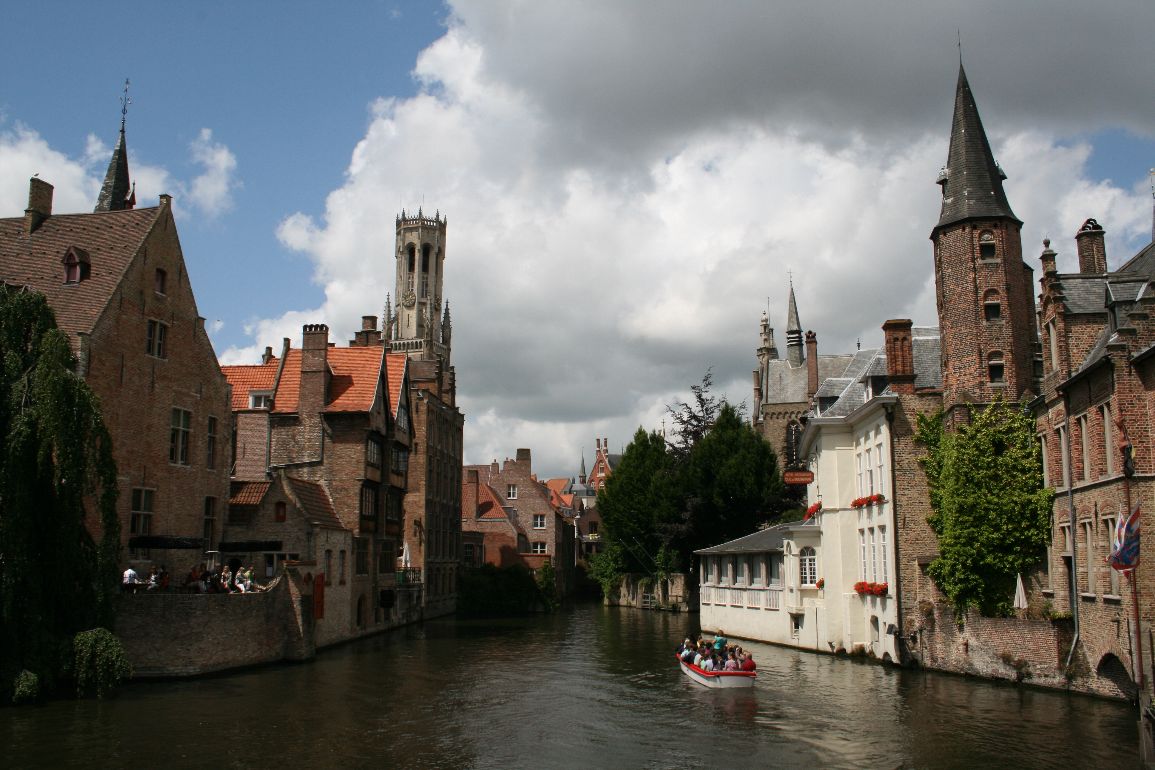 Bruges (Belgium), Rozenhoedkaai.